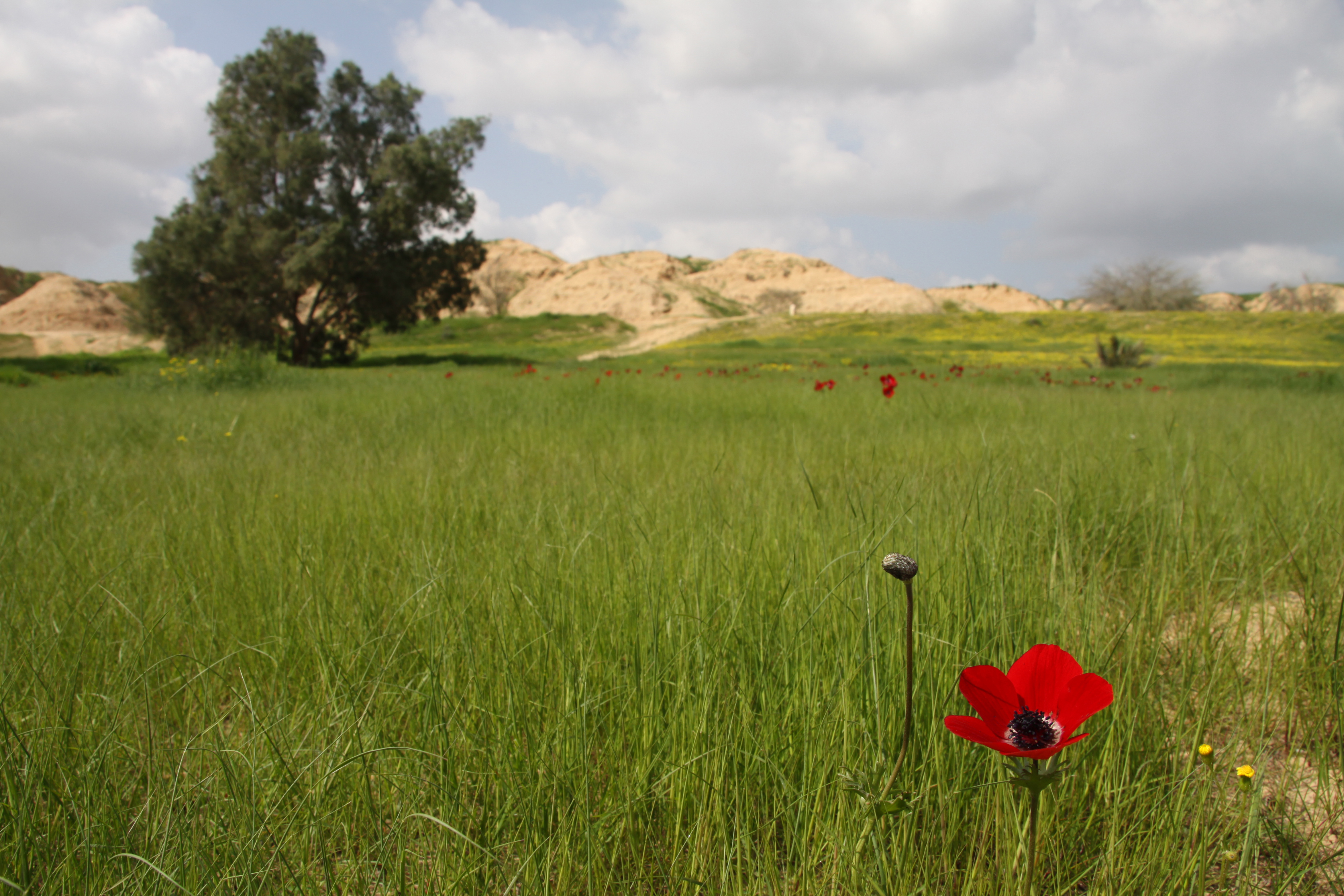 Red Anemone coronaria at Nahal Habsor Park (Besor Stream), Northwestern Negev, Israel. The typical Loess Badlands can be seen at the background